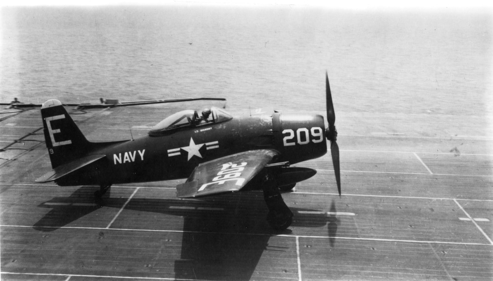 PictionID:41545046 - Title:Ray Wagner Collection Image - Catalog:16_000505 Grumman F8F-2 122637 VF-82 E209 CVB-41 USS Midway 1941 - Filename:16_000505 Grumman F8F-2 122637 VF-82 E209 CVB-41 USS Midway 1941.tif - Image from the Ray Wagner Collection. Ray Wagner was Archivist at the San Diego Air and Space Museum for several years and is an author of several books on aviation --- ---Please Tag these images so that the information can be permanently stored with the digital file.---Repository: San Diego Air and Space Museum